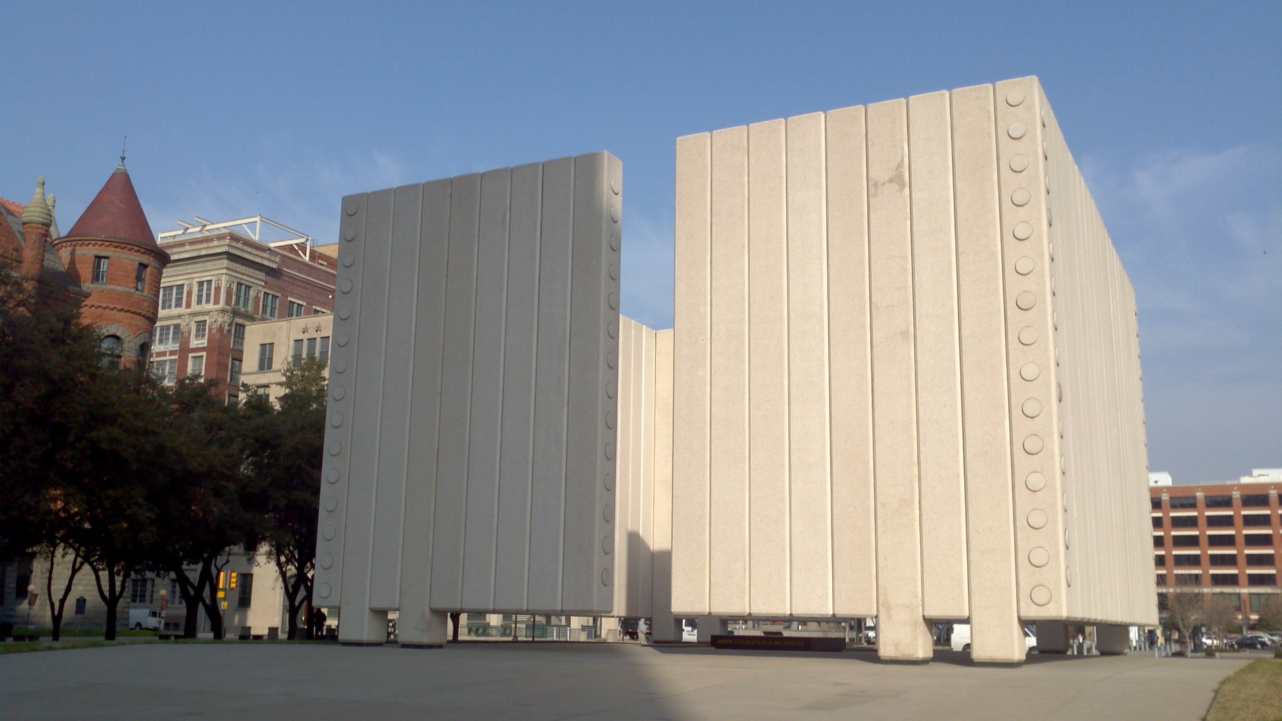 John F. Kennedy Memorial